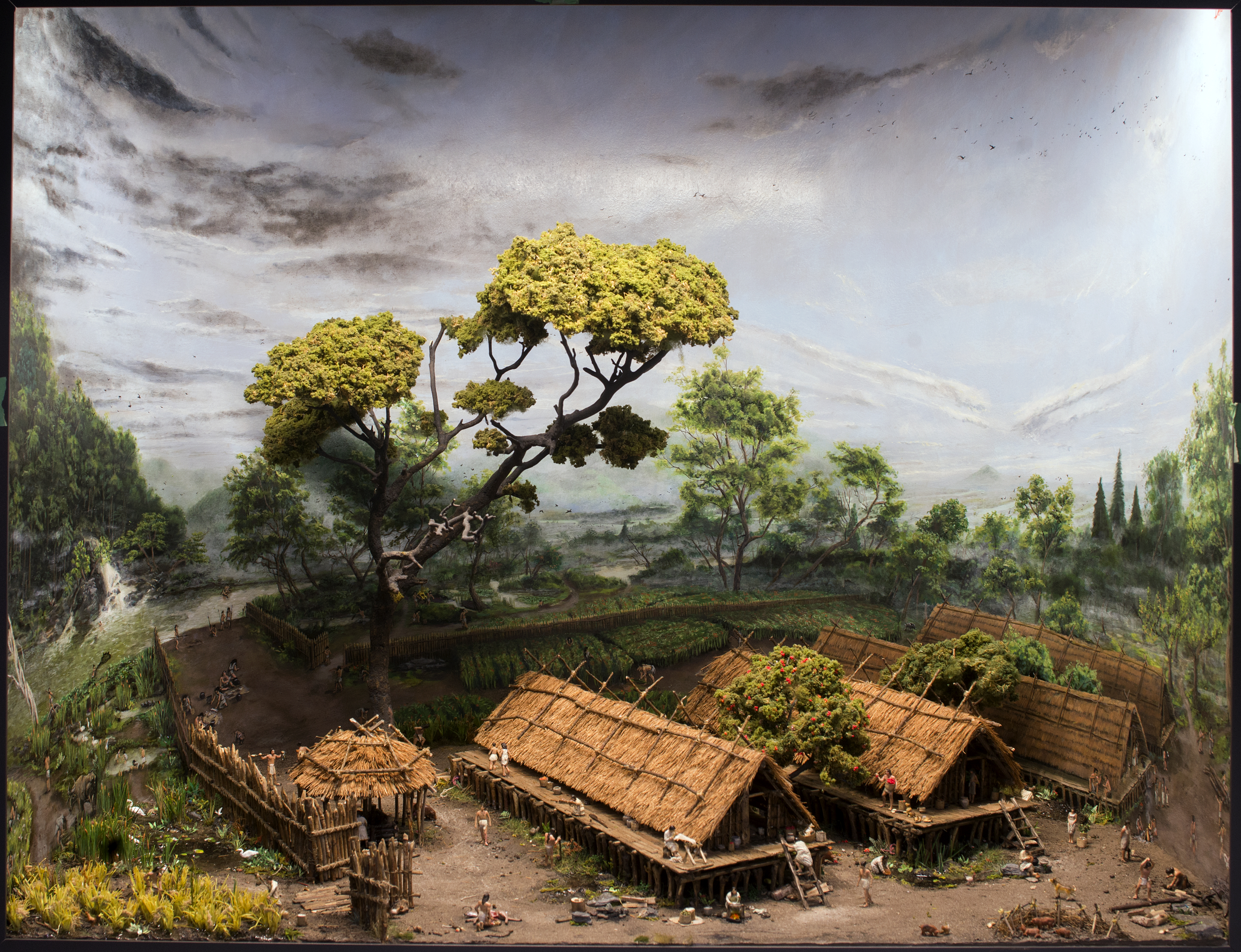 1:48 scale model of a neolithic Chinese Village, the Hemudu. Oil painting in background, scale models in foreground. Field Museum of Natural History